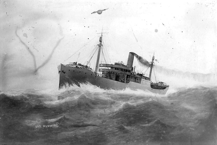 A painting depicting US Navy cargo ship USS Munwood (ID-4460) in 1918 or 1919.